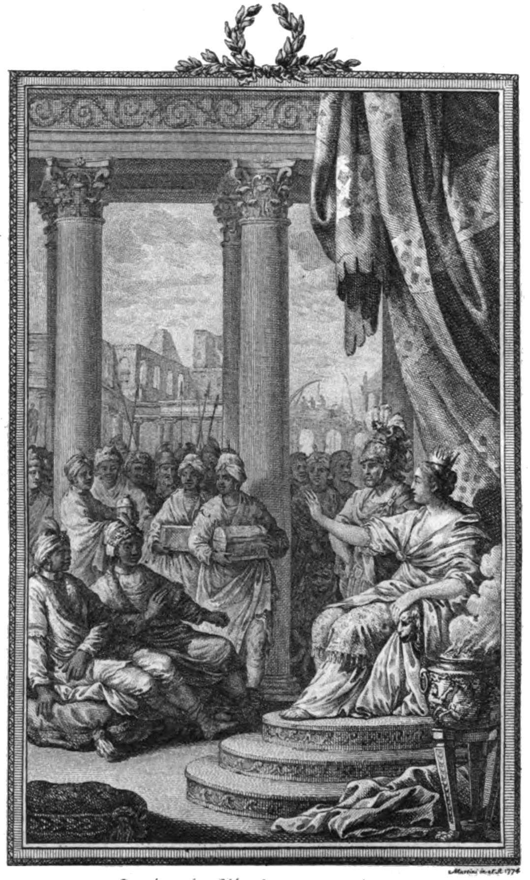 Pietro Metastasio - Didone abbandonata, act 1, scene 5 - Paris 1780